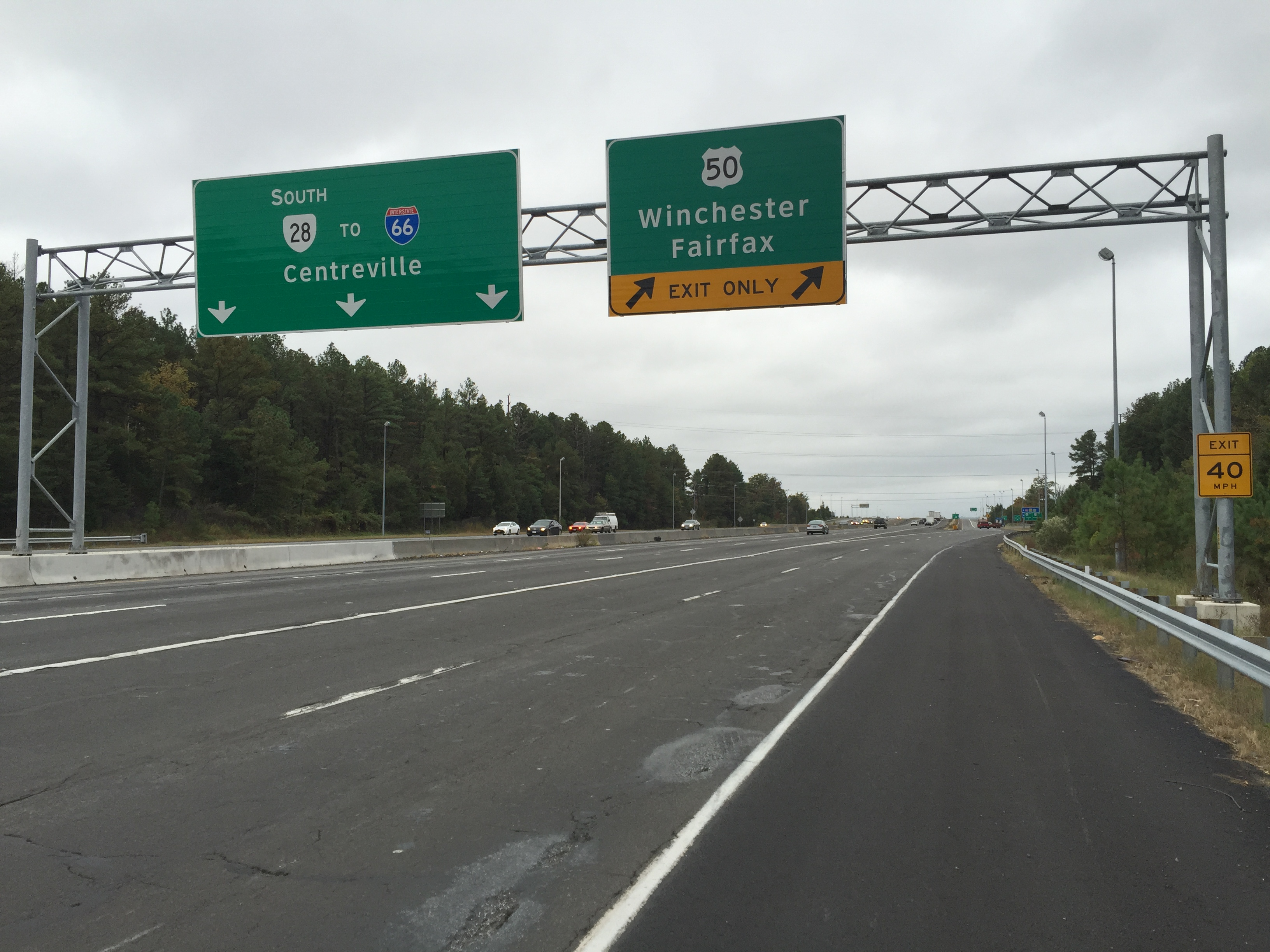 View south along Virginia State Route 28 (Sully Road) at the exit for U.S. Route 50 (Winchester, Fairfax) in Chantilly, Fairfax County, Virginia